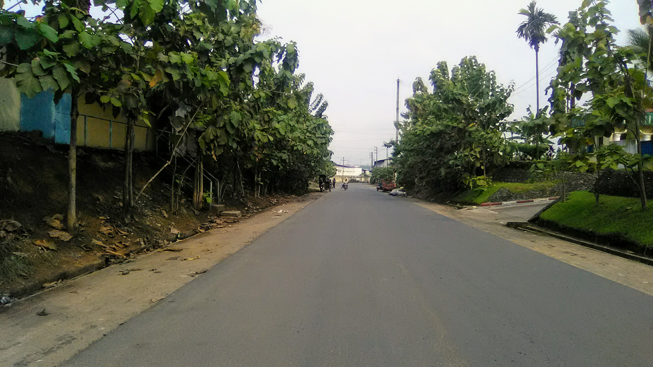 This is an image with the theme "Africa on the Move or Transport" from: Cameroon